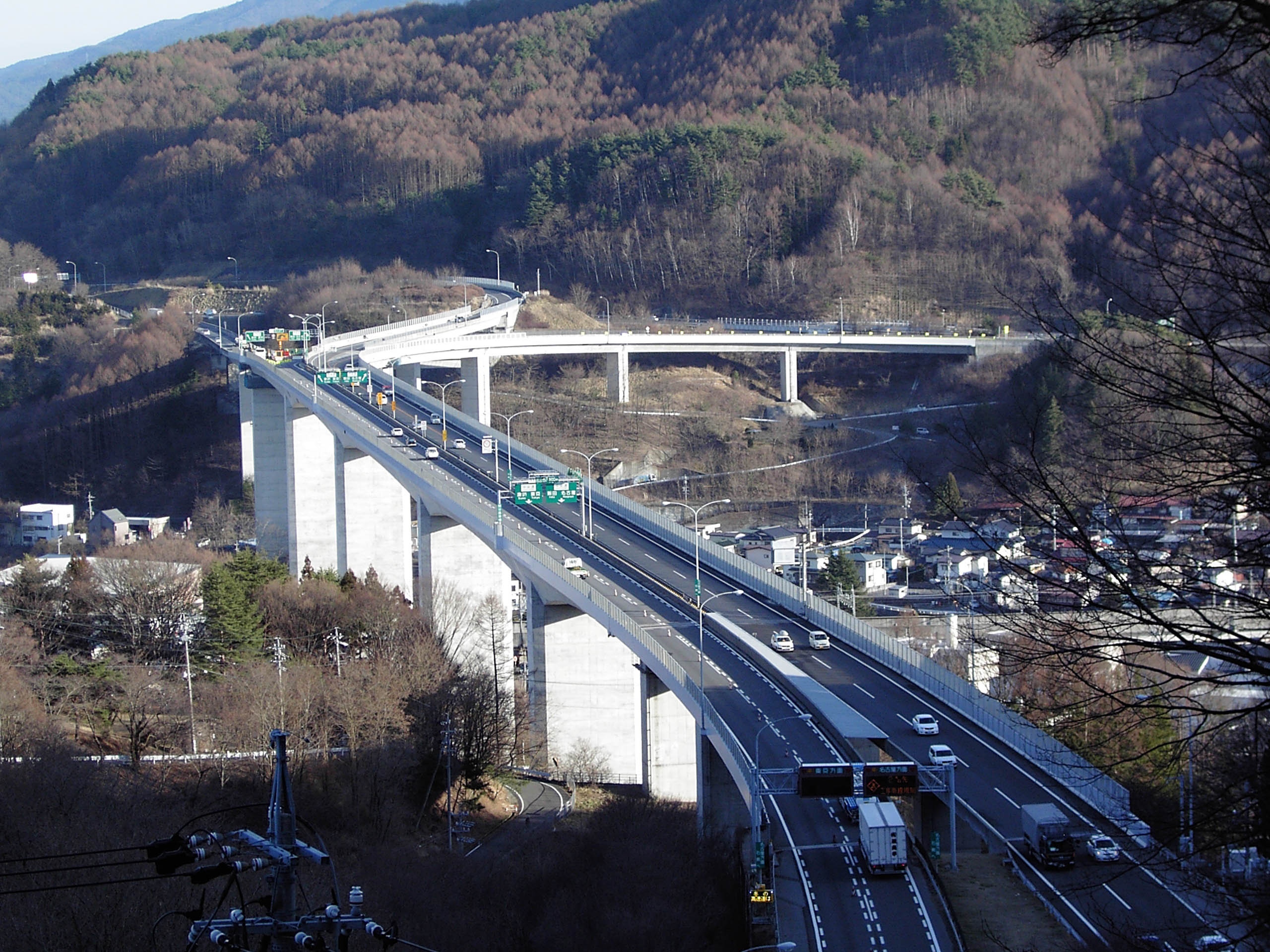 Nagano Expressway in Okaya, Nagano pref., Japan.